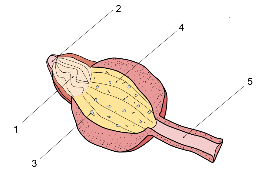 Chicken Gizzard Cross-Section. Labeled parts include proventriculus, stones, duodenum, esophagus, and the muscular wall of the gizzard